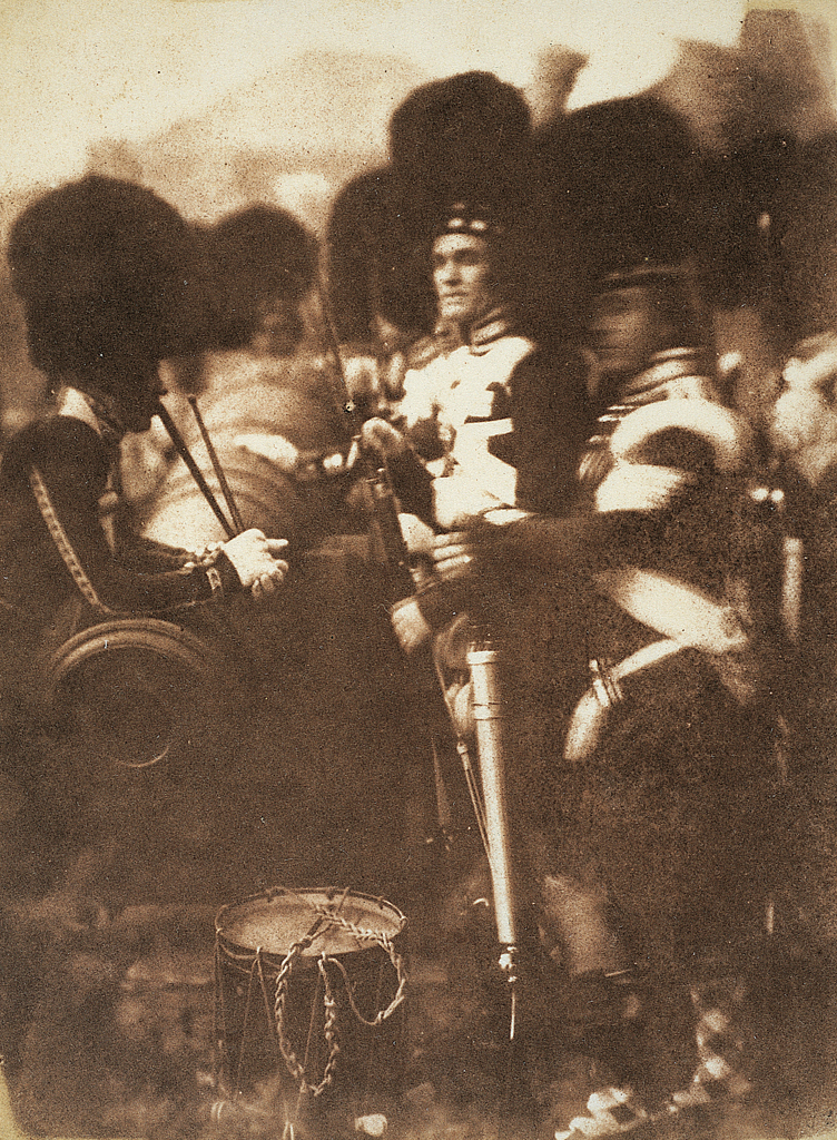 Robert Adamson, David Octavius Hill April 1846 Accession no. PGP HA 347 Medium Calotype print Size 19.00 x 14.10 cm Credit Provenance unknown For more information please select here.